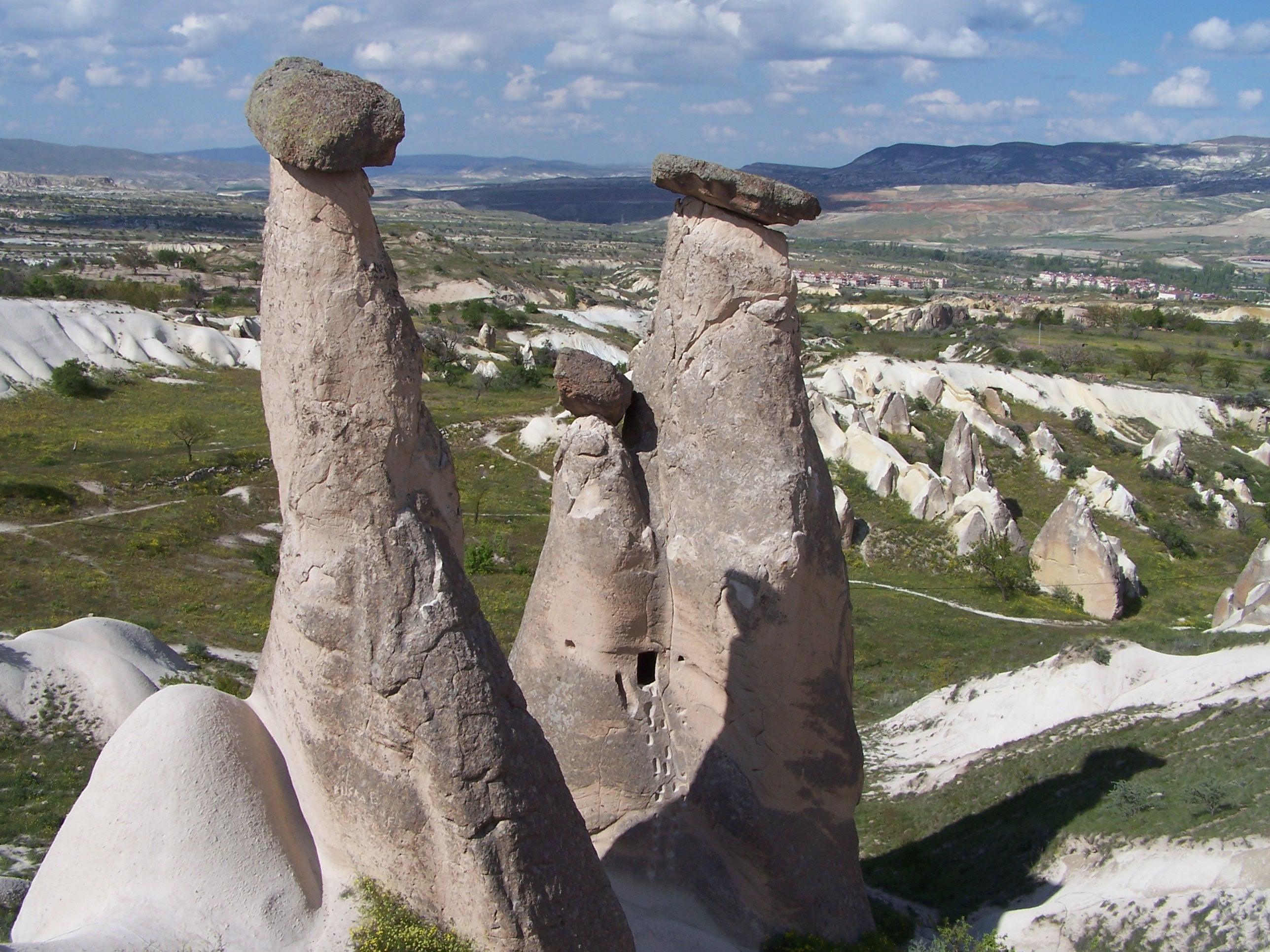 triple fairy chimney